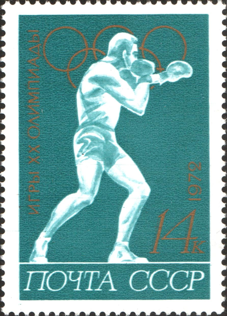 USSR stamp